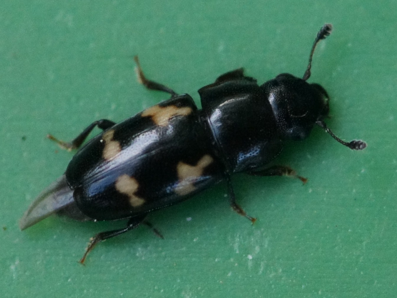 Glischrochilus quadriguttatus. Picture taken in Skåne, Sweden.